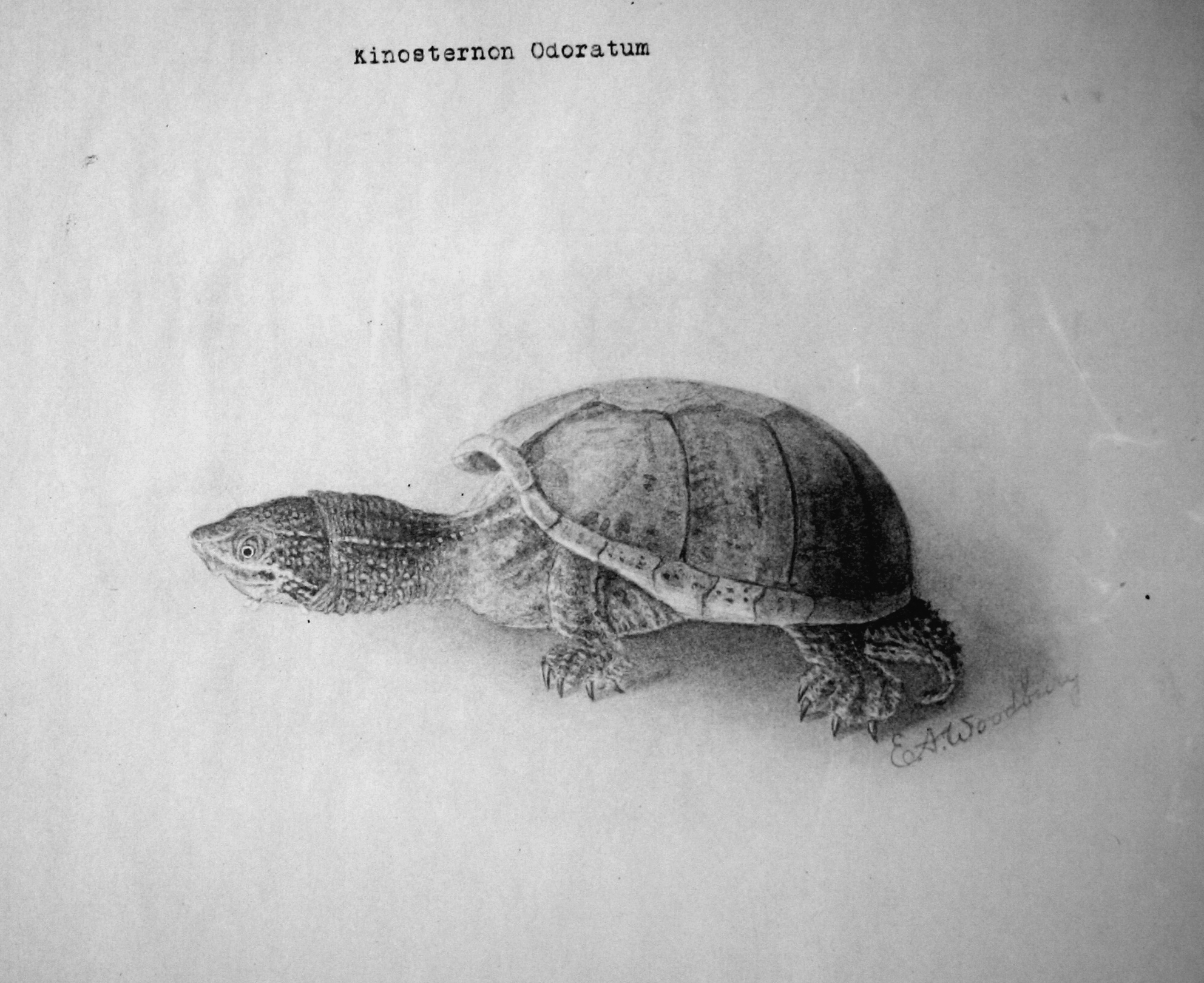 Sternotherus odoratus (synonym Kinosternon odoratum), Image ID: fish7350, NOAA's Historic Fisheries Collection, Photographer: Archival Photographer Stefan Claesson, Credit: Gulf of Maine Cod Project, NOAA National Marine Sanctuaries; Courtesy of National Archives